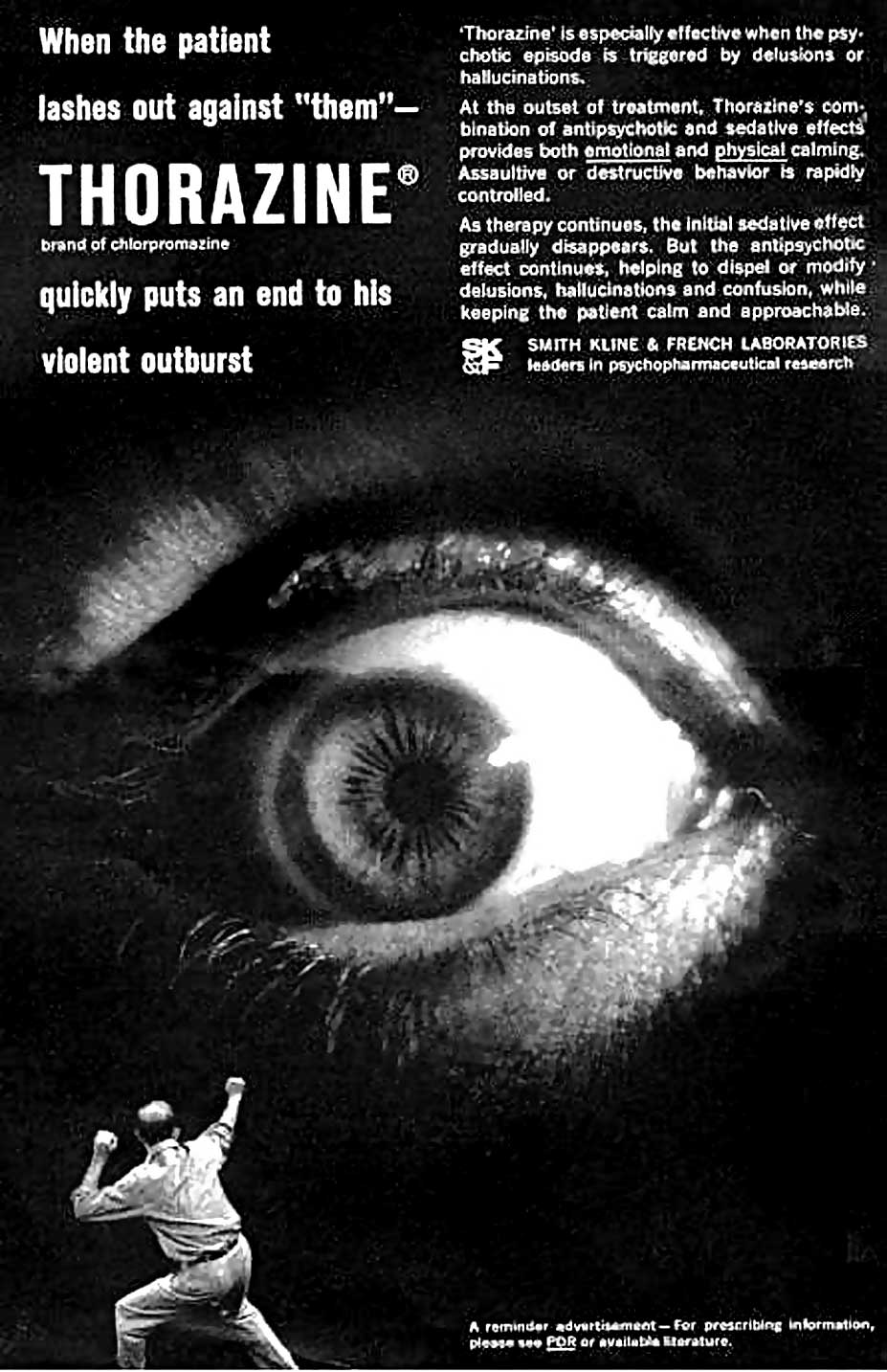 Advert from ca. 1962 for Thorazine (trade-name of chlorpromazine in the U.S.). An antipsychotic (neuroleptic, major tranquilizer, antischizophrenic, actaractic). In Europe it is known as Largactil.